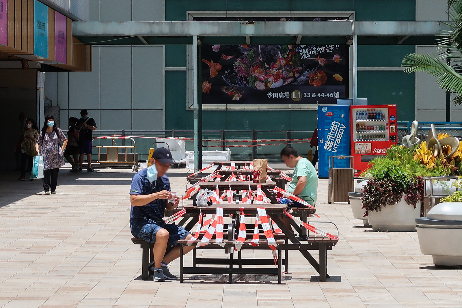 People eat at outdoor in Shatin Centre